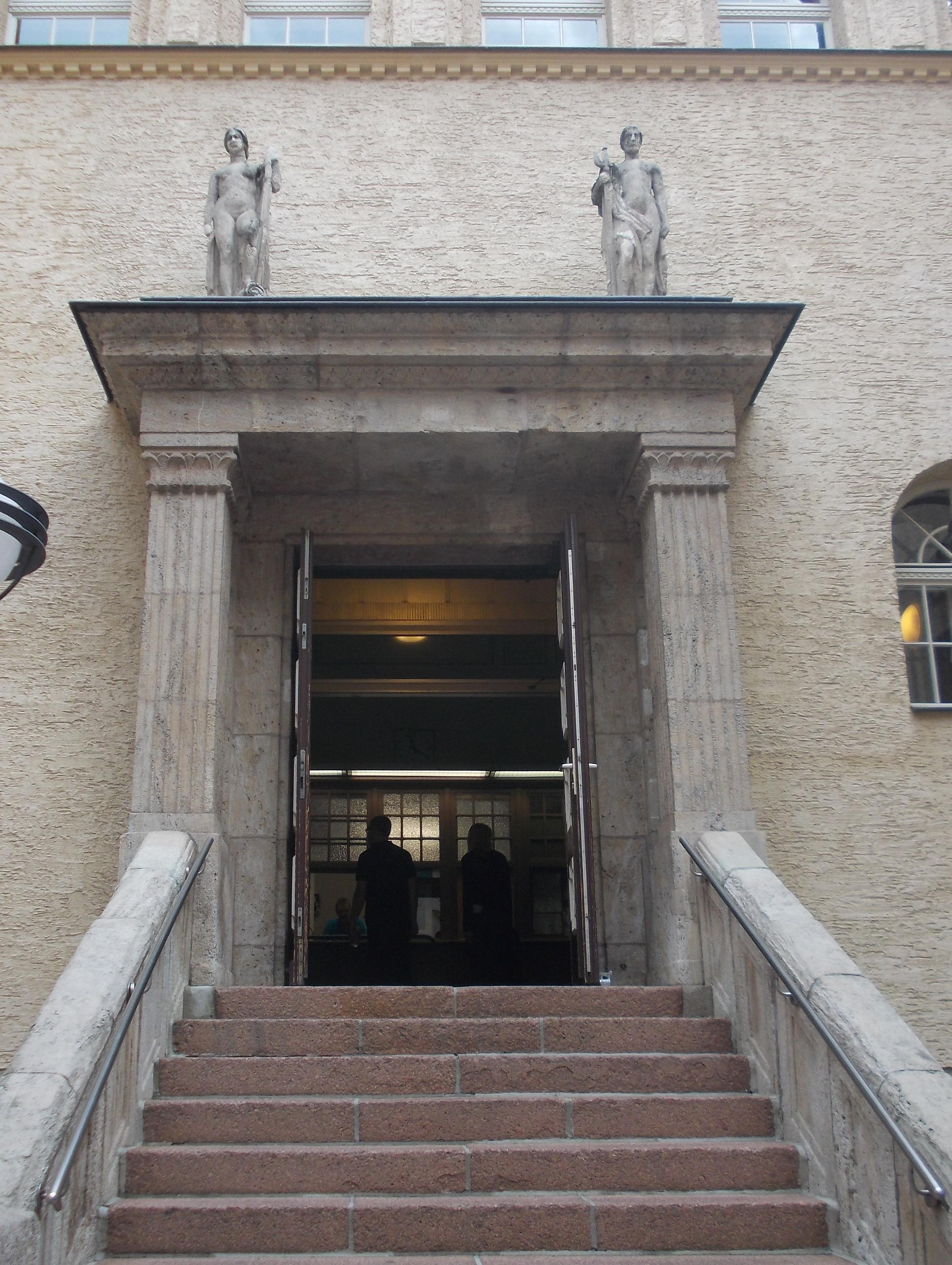 Municipal swimming-baths in Halle (Saale), Saxony-Anhalt